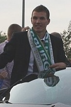 Edin Džeko - German Football Champion, 2009